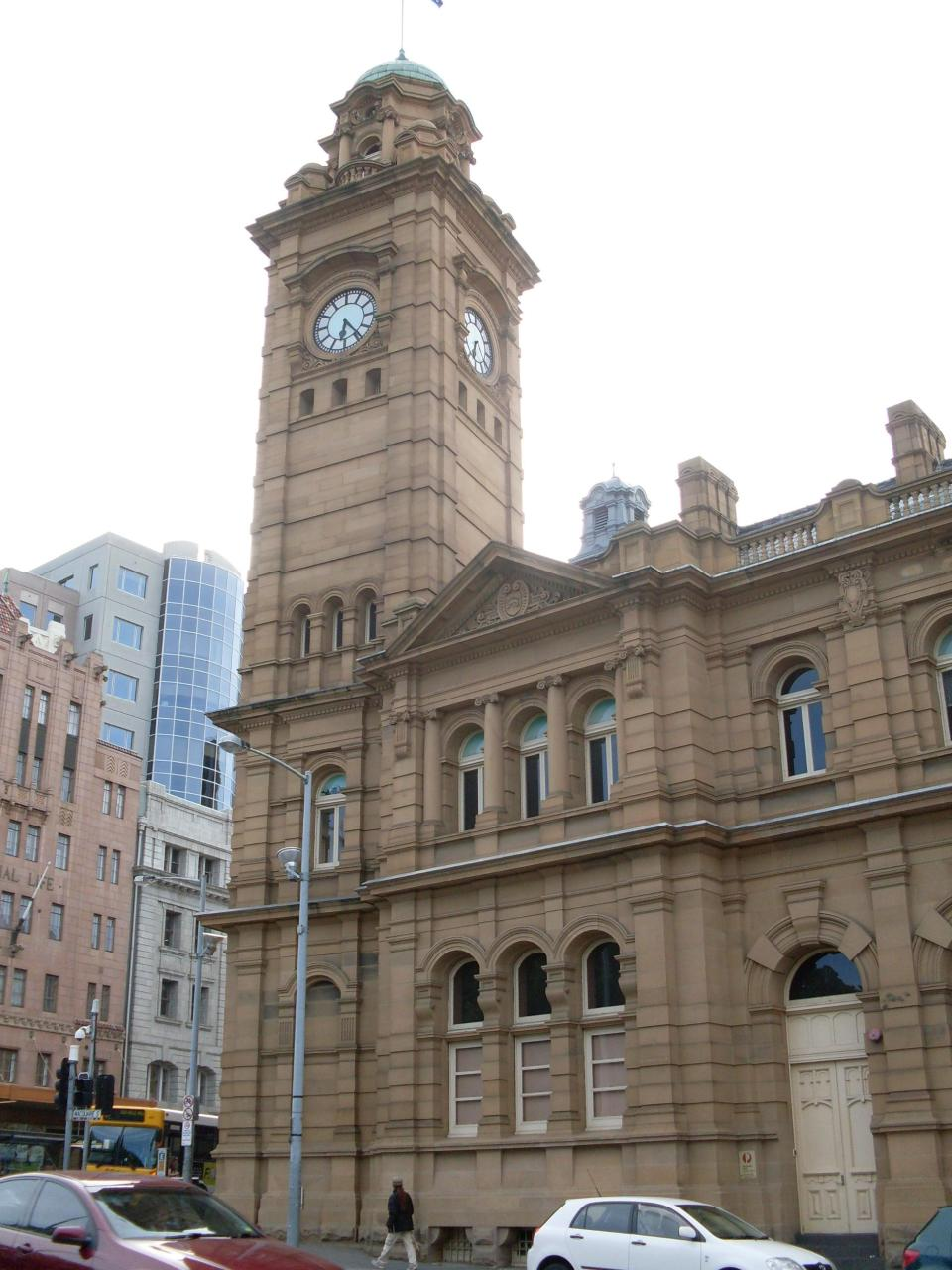 Hobart GPO